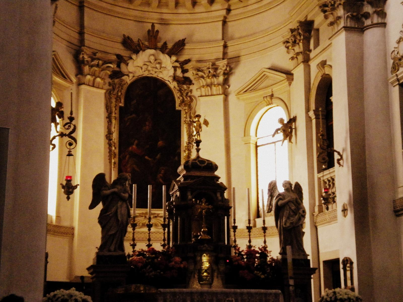 Ciborio dell'altare della Chiesa di santa Croce in Padova